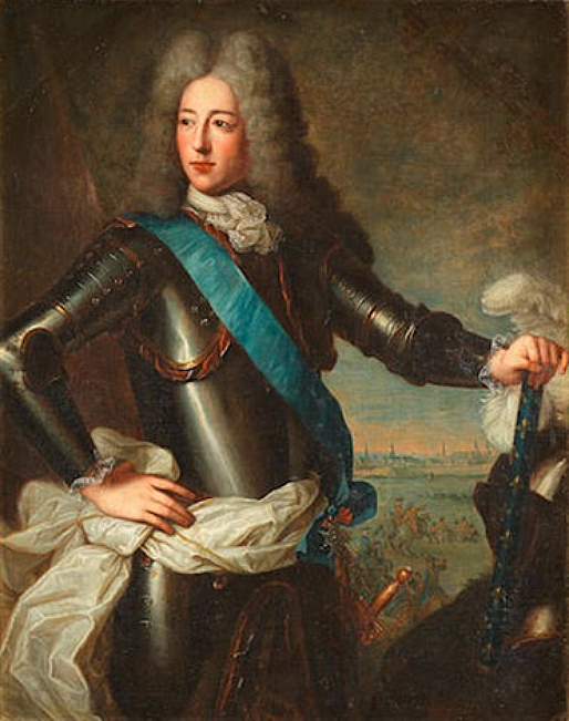 Portrait of Louis Henri, Duke of Bourbon (1692-1740), Prince de Condé, three-quarter-length, in armour, wearing the Order of the Saint'Esprit